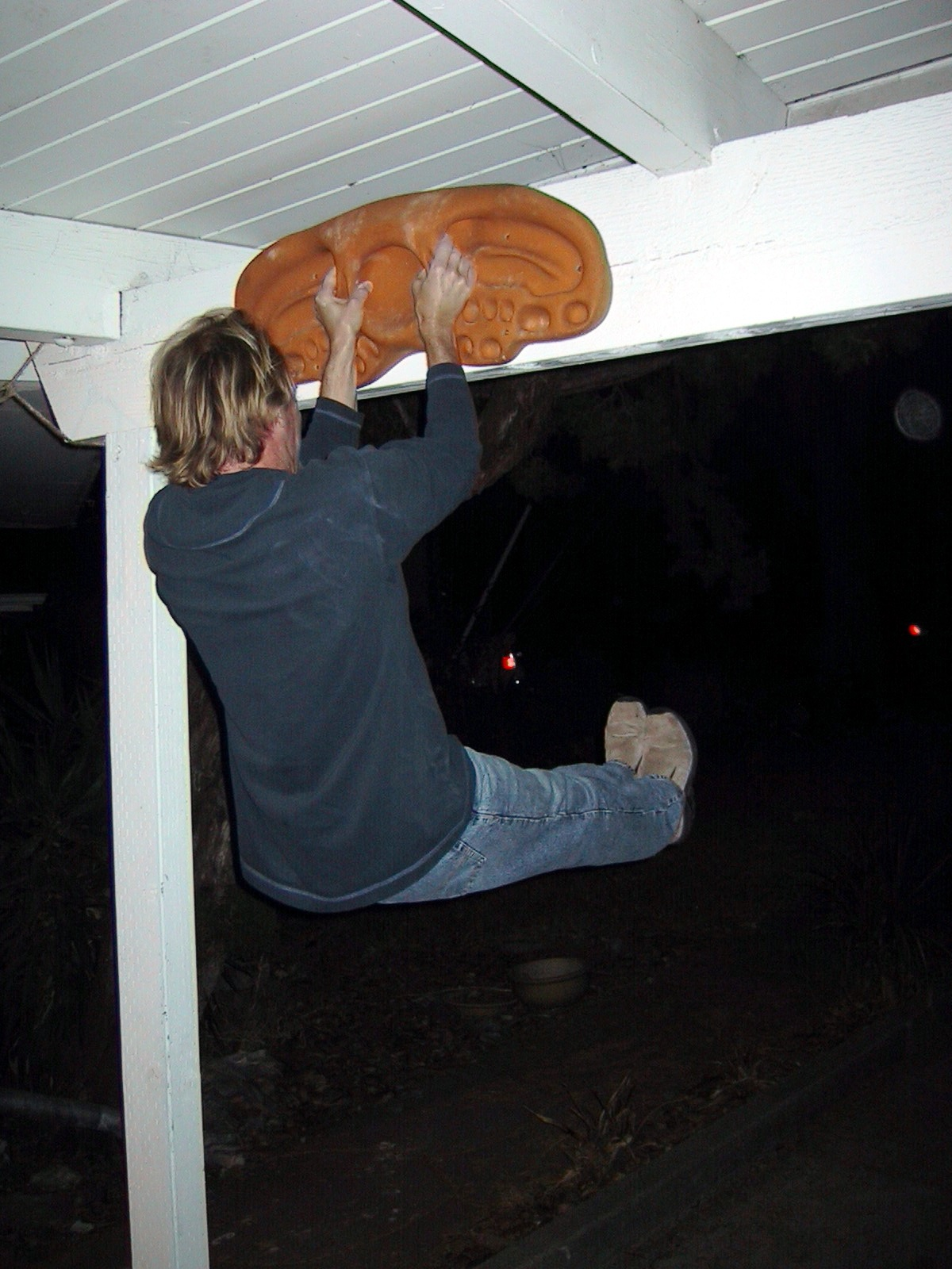 A climber improves his grip on a training board.